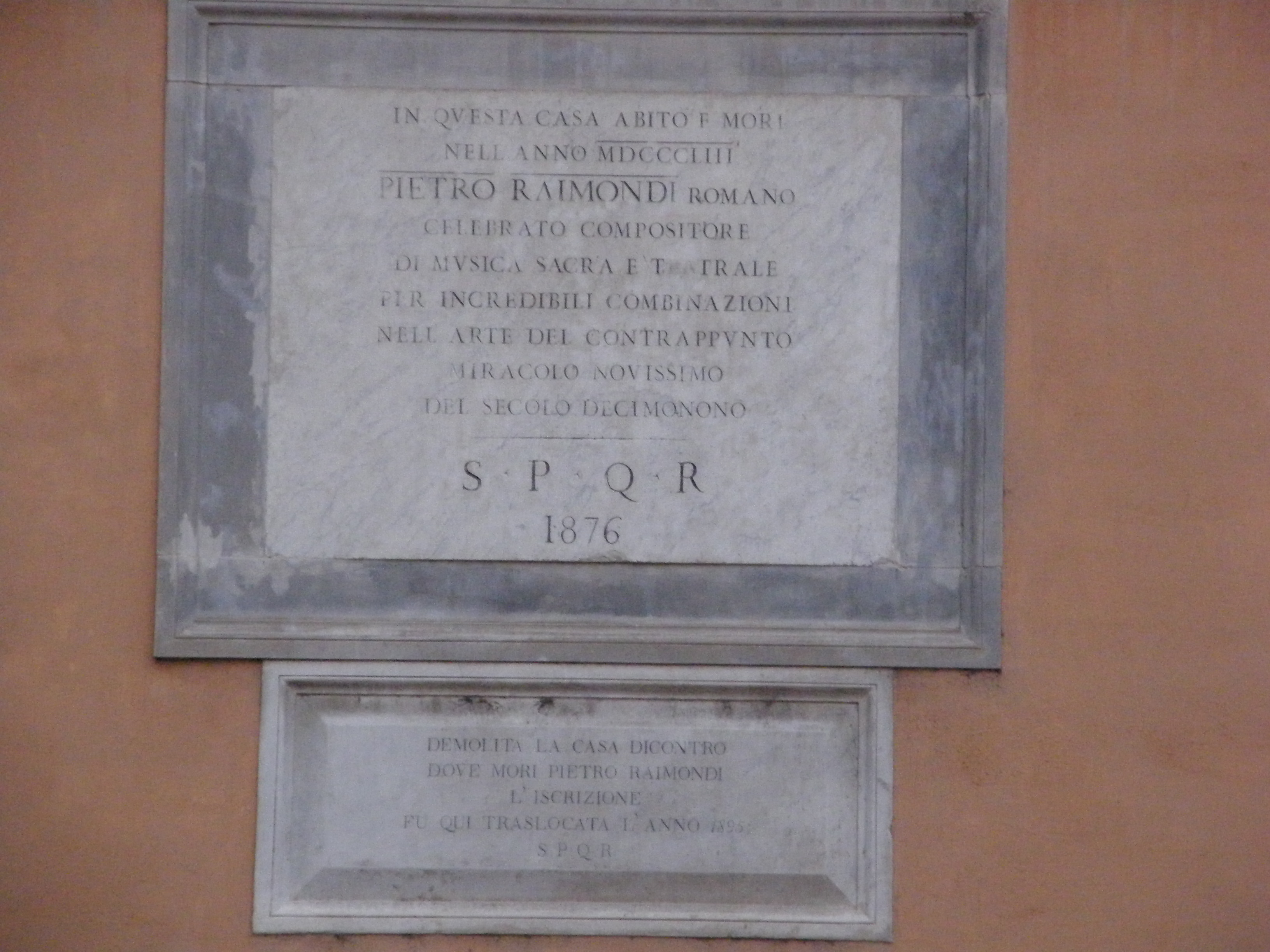 Rome, Italy - Piazza dell'Oratorio - Commemorative plaque devoted to Pietro Raimondi